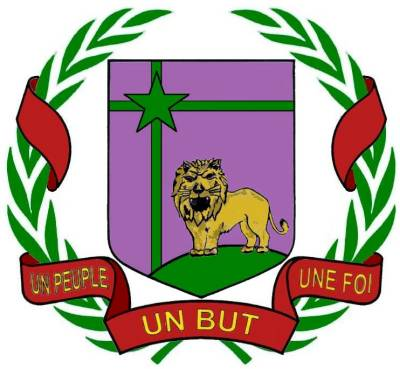 coat of arms of the Republic of Senegal